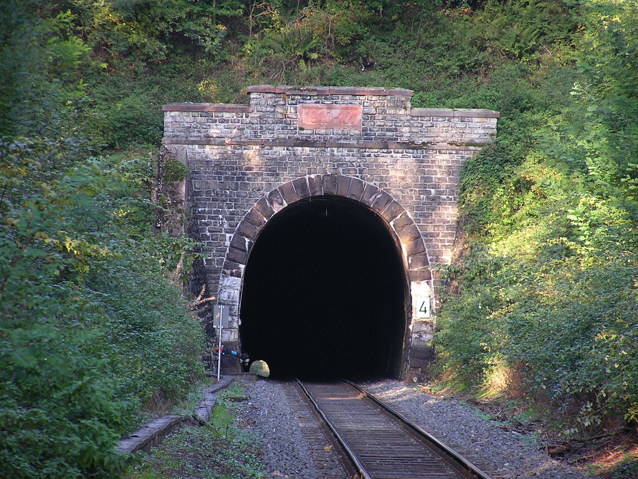 The Hasselborn Tunnel (1,300 m) at the Taunusbahn, portal at the side of Grävenwiesbach